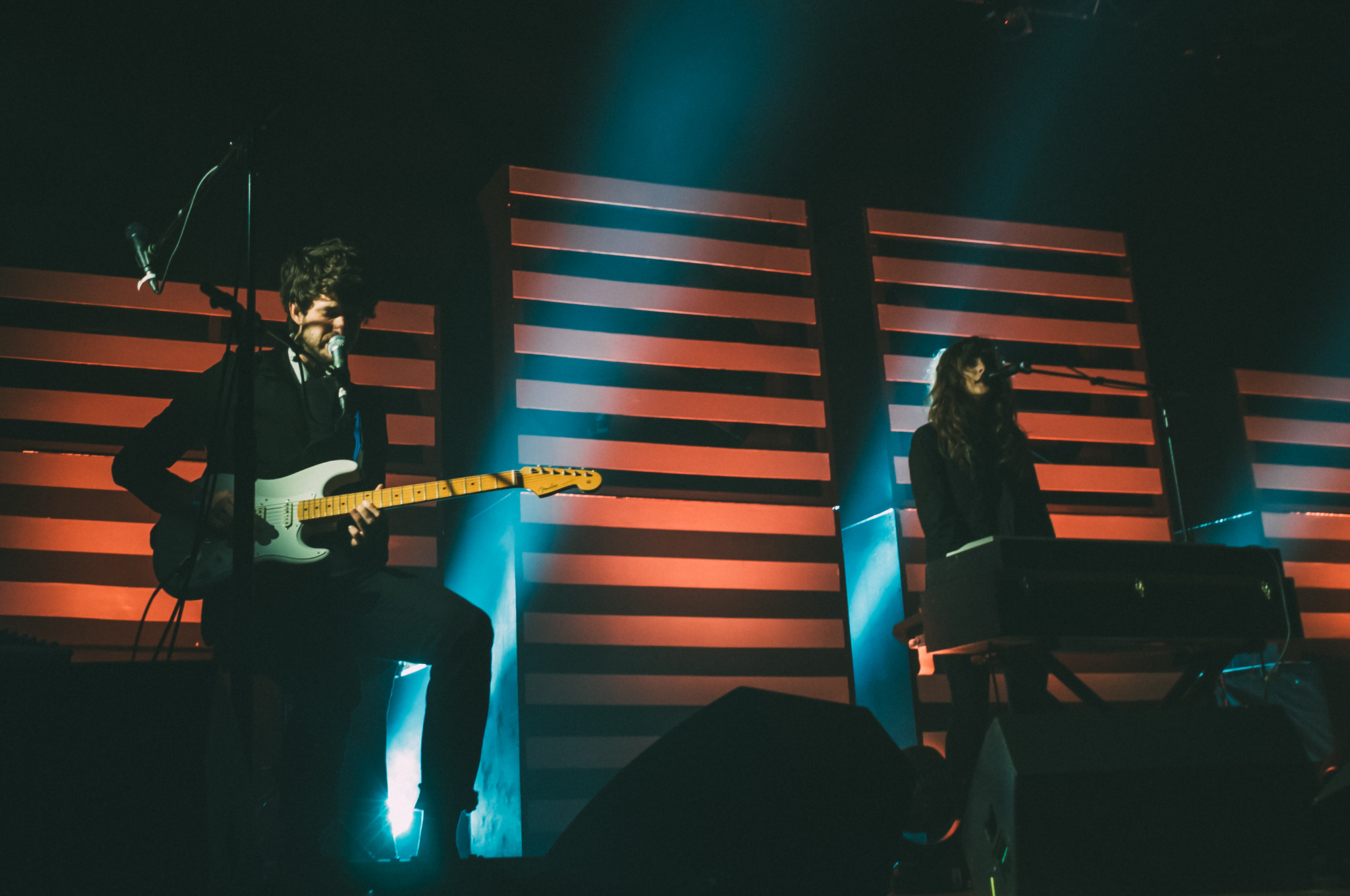 Dream pop duo Beach House performing at the House of Blues in San Diego, California on July 1, 2012